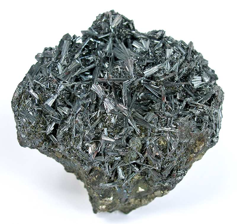 Hutchinsonite Locality: Quiruvilca Mine (La Libertad Mine; ASARCO Mine), Quiruvilca District, Santiago de Chuco Province, La Libertad Department, Peru (Locality at ) Size: miniature, 4.5 x 4.4 x 2.2 cm Hutchinsonite This is one of the richest examples of the species out there, i'd imagine...it is by far the richest piece I have seen for this rare thallium-rich sulfosalt. Not the biggest, but the most richly crystallized. It is composed of extremely robust, diverging sprays of acicular hutchinsonite crystals, many doubly terminated. The crystals, to .75 cm across, are lustrous, dark gray, and nearly cover the host matrix. This is an amazing specimen of the rare lead, thallium, Sulpharsenites. From the collection of my mentor, Carlton Davis. Purchased in the early 1980s from dealer Gary Hansen for $300 (a huge sum in those days for a black rarity!)